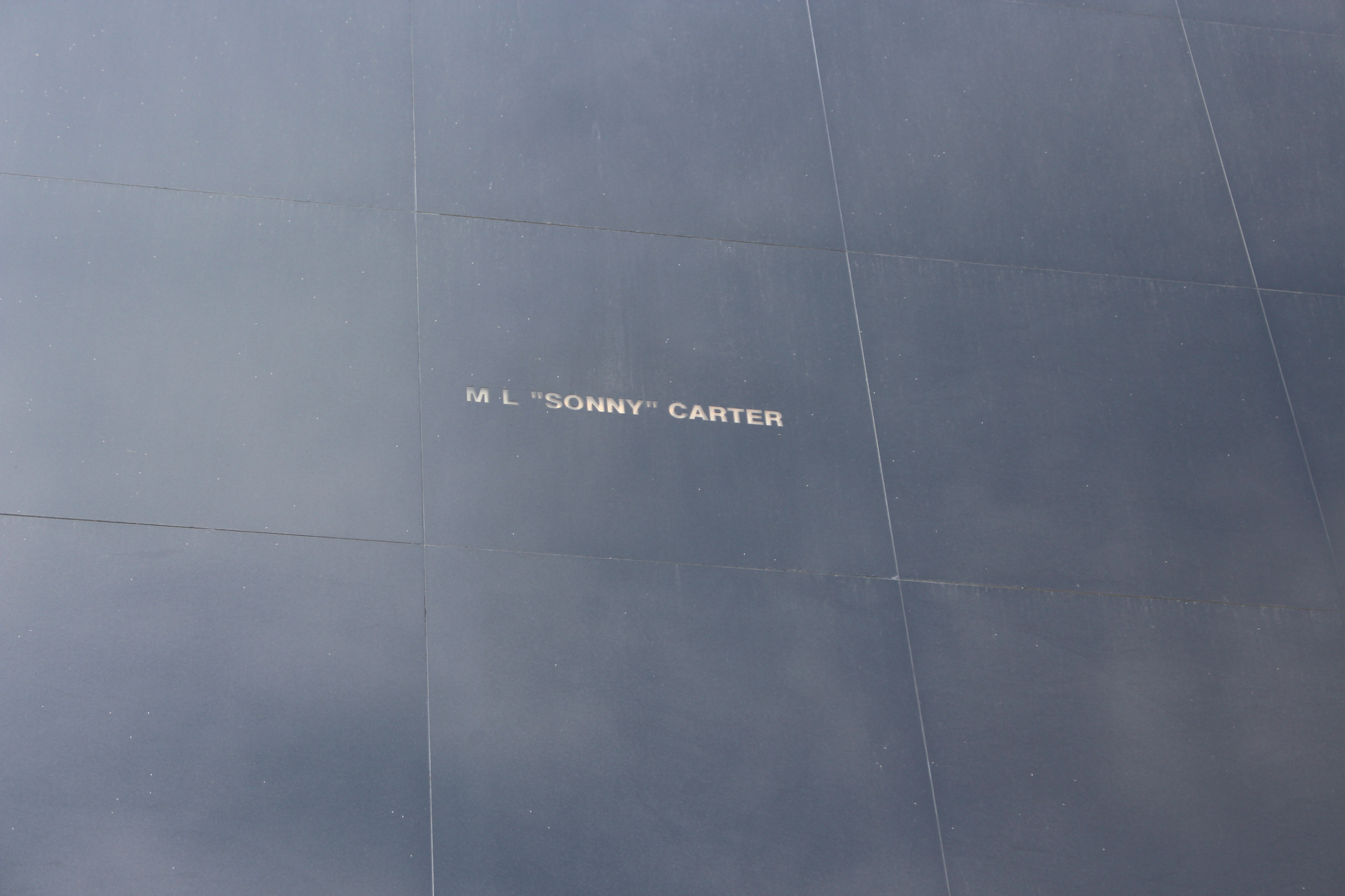 Space Mirror Memorial, Kennedy Space Center, Brevard County, Florida